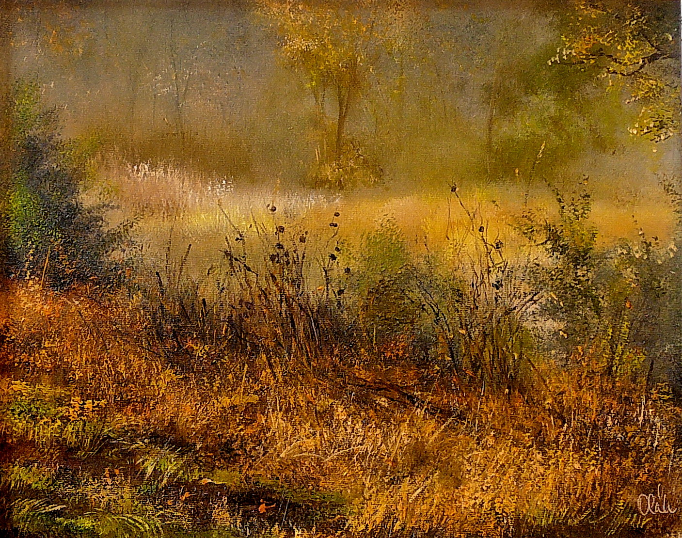 Kati Olah: Wood